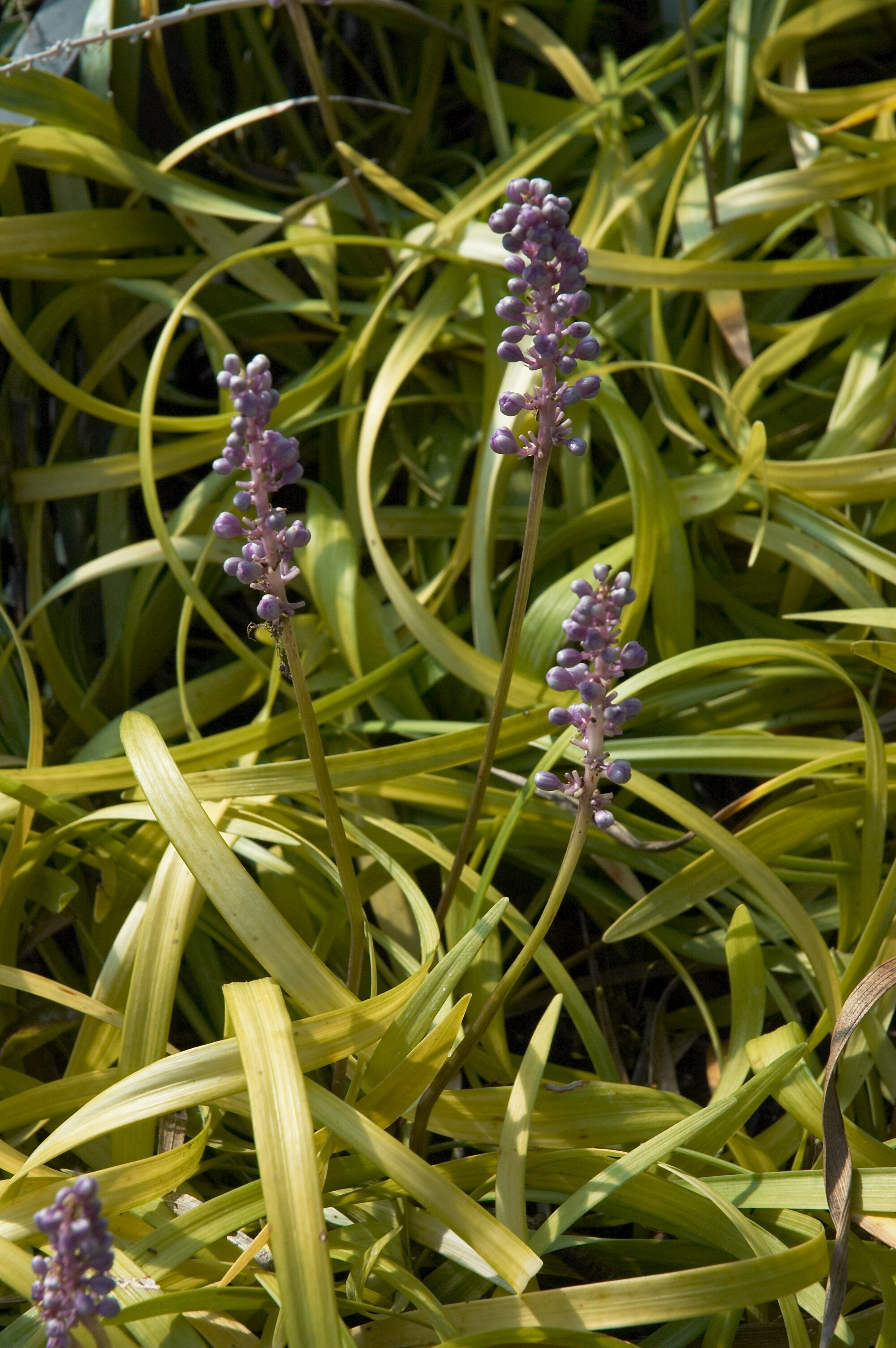 Liriope muscari. This photo has been taken in Belgium.